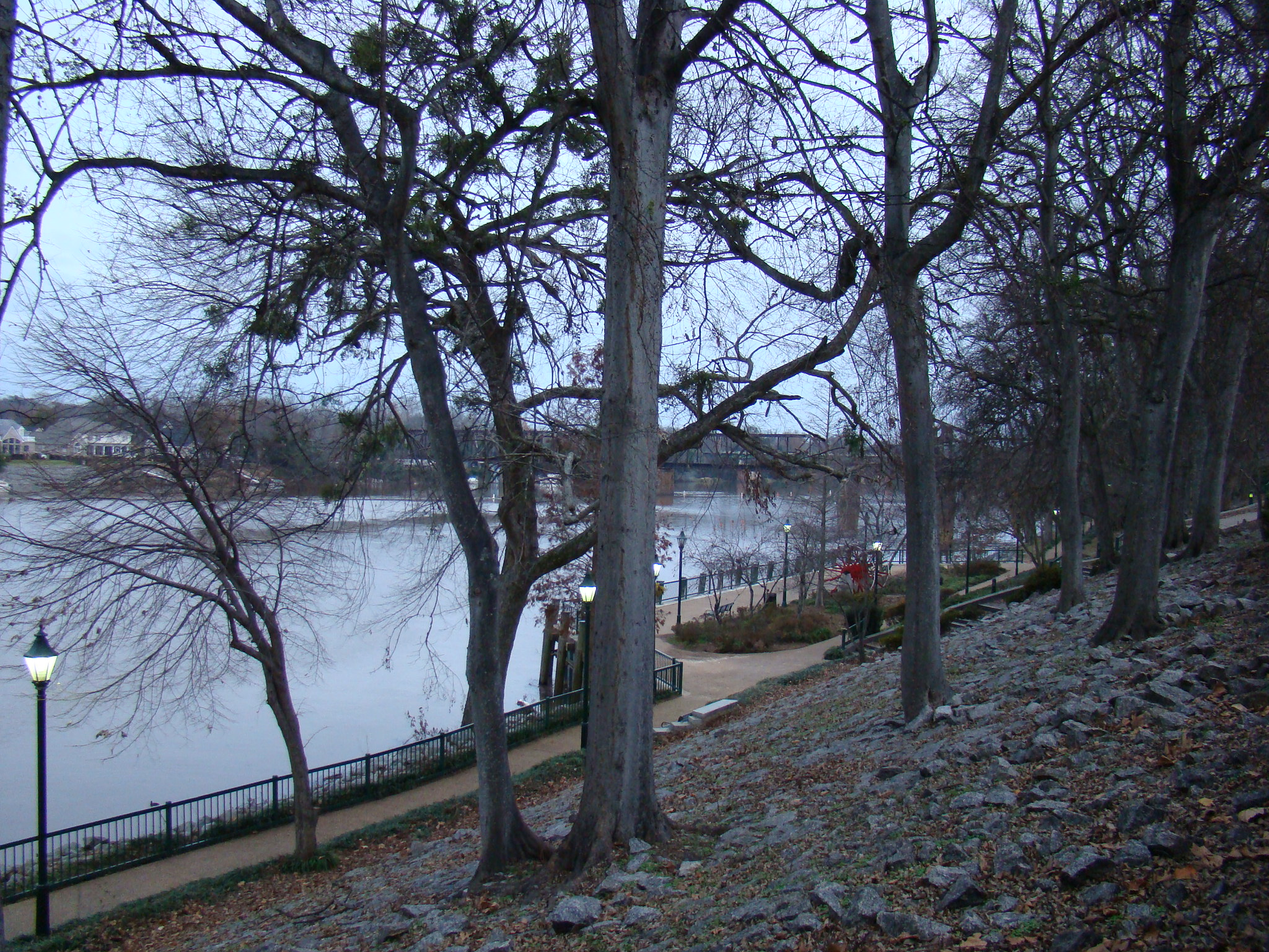 Lower level of Riverwalk Augusta, December 2008 (Savannah River at Augusta, Georgia, USA)